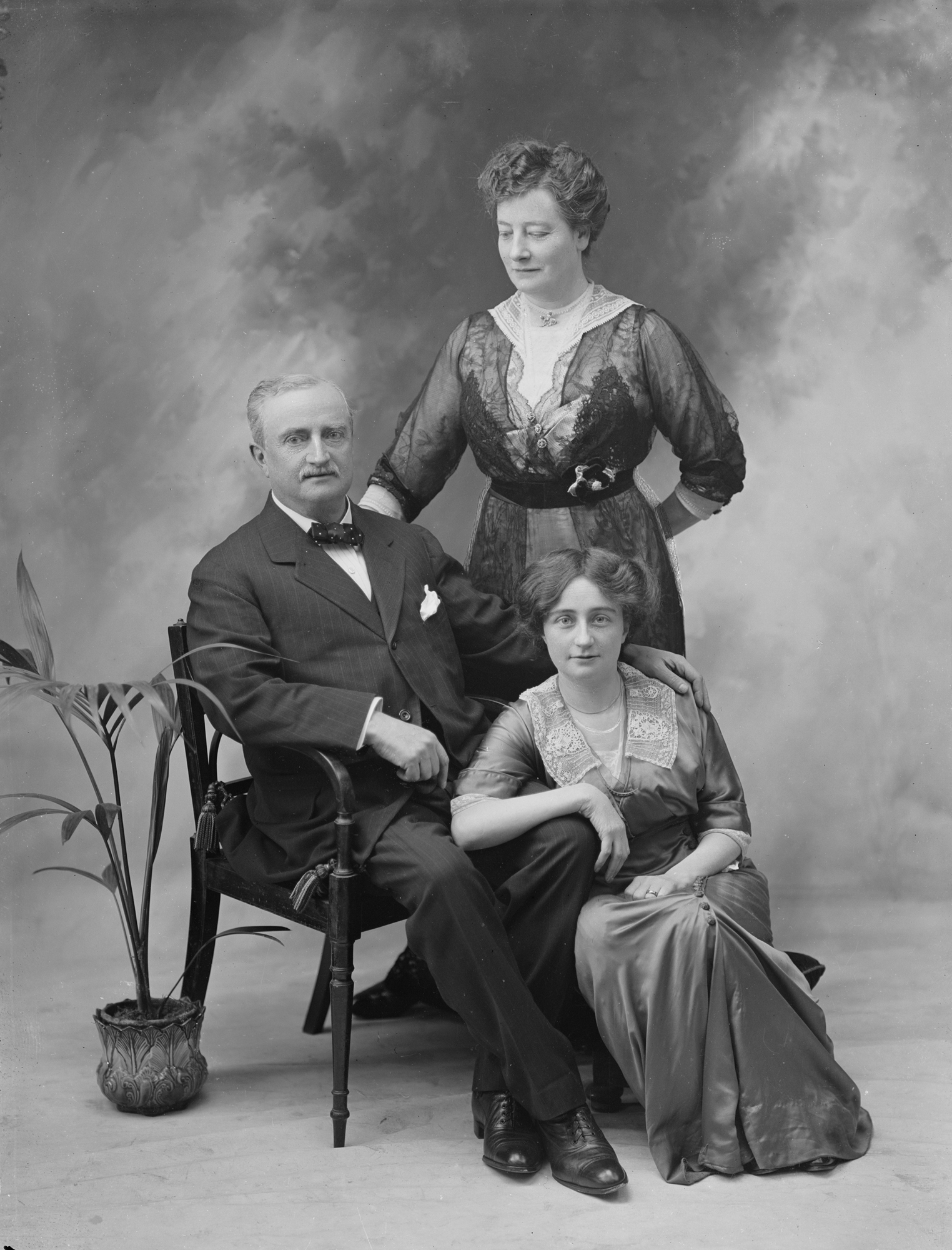 This photo is one of my favourites for quite a while, I have seen quite a few photographs of the great man, but none better than this, in my opinion. We have Mr and Mrs Redmond and the consensus seems to be that the girl (or more appropriately young lady) is Johanna Redmond their daughter. I am going with our suggested catalogue date of 26th January 1914 and there is good evidence that he was in Waterford at that time. John Edward Redmond (1 September 1856 – 6 March 1918) was an Irish nationalist politician, barrister, MP in the House of Commons of the United Kingdom of Great Britain and Ireland and leader of the Irish Parliamentary Party from 1900 to 1918. He was a moderate, constitutional and conciliatory politician who attained the twin dominant objectives of his political life, party unity and finally in September 1914 achieving the promise of Irish Home Rule under an Act which granted an interim form of self-government to Ireland. However, implementation of the Act was suspended by the intervention of World War I, and ultimately made untenable after the Conscription Crisis of 1918. Photographer: A. H. Poole Collection: Poole Photographic Studio, Waterford Date: 26th January 1914 NLI Ref: P_WP_2514 You can also view this image, and many thousands of others, on the NLI’s catalogue at